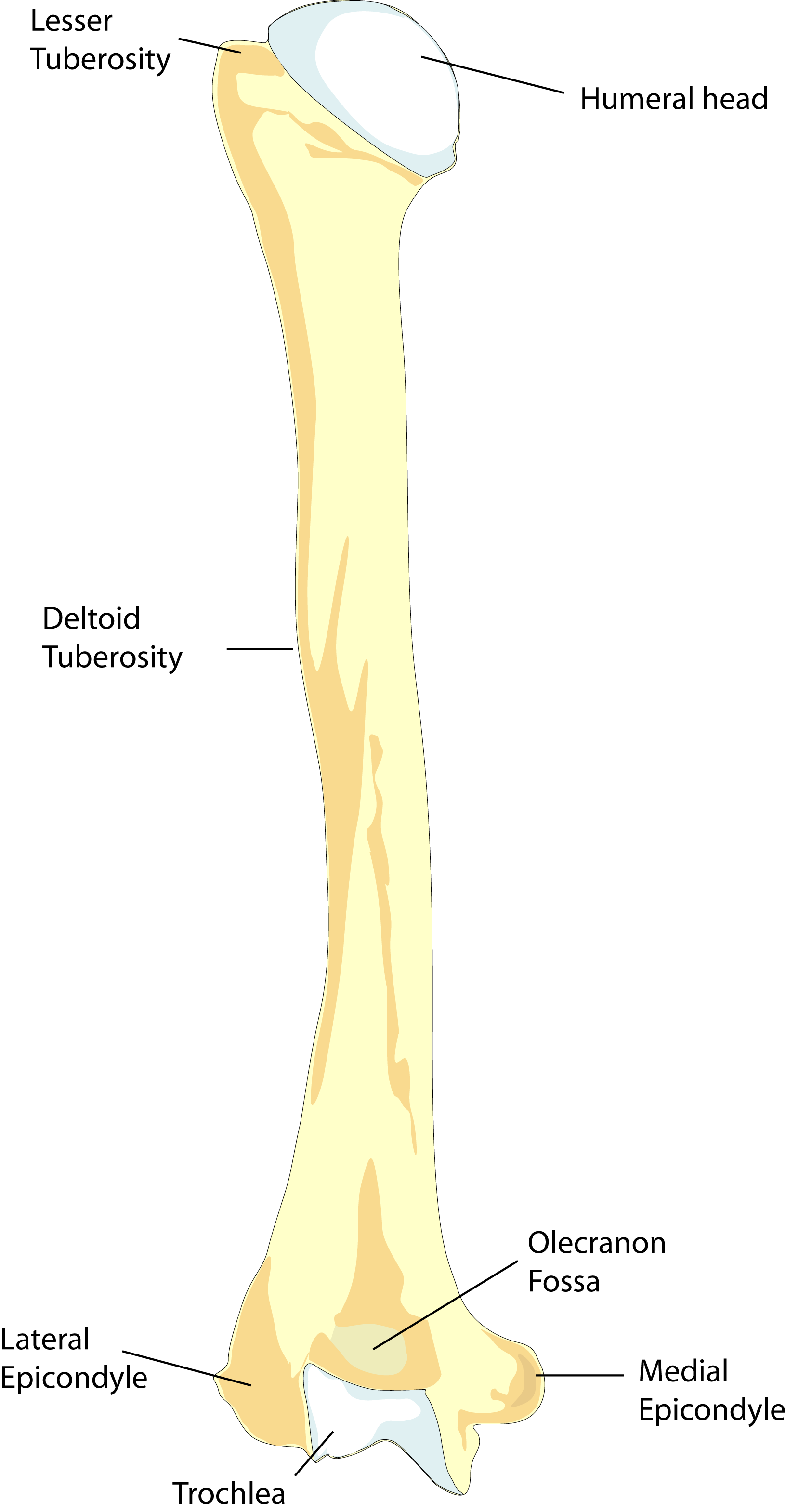 Back of the Left Humerus bone (Arm bone)